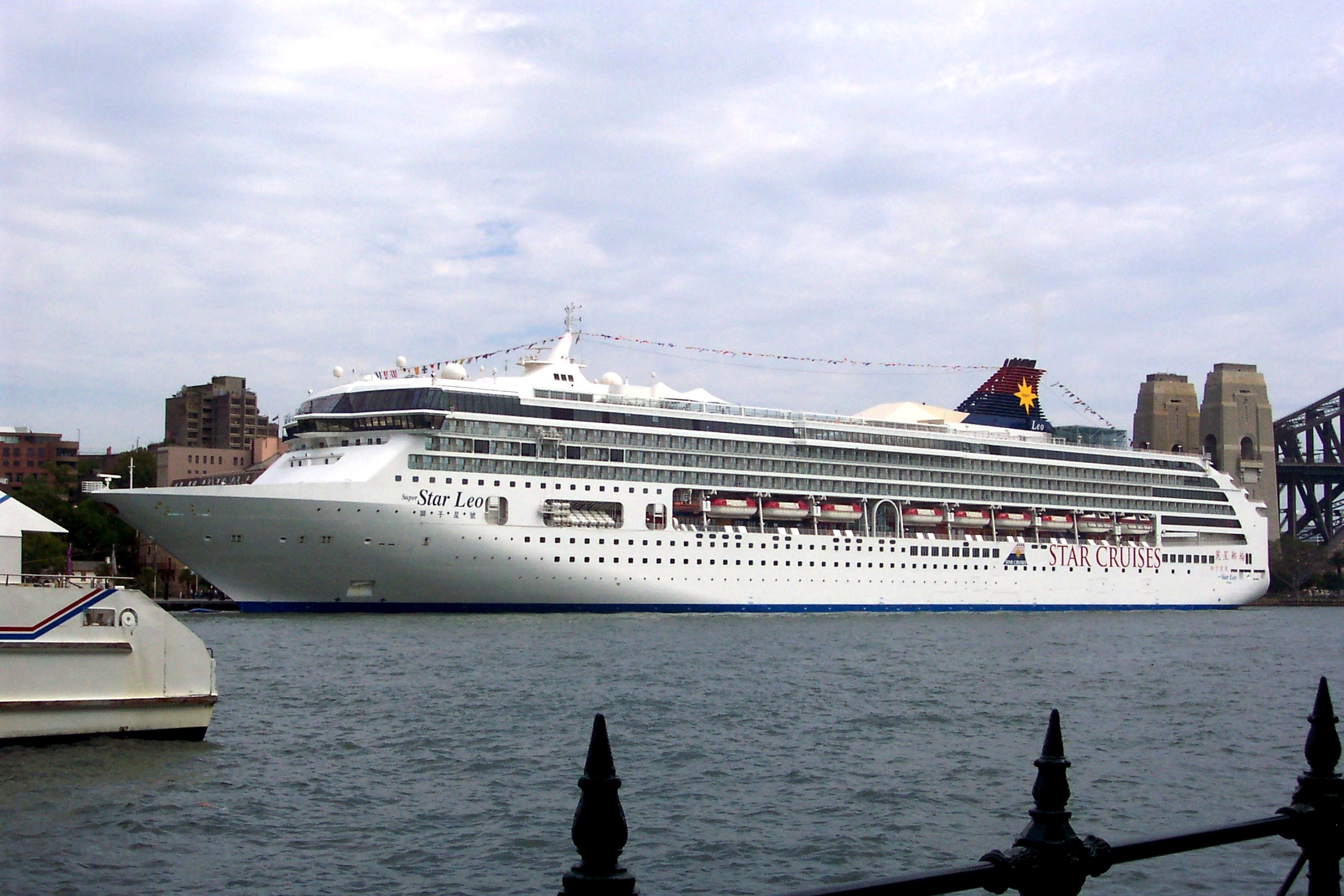 Ocean Liner "Super Star Leo". Docked at the Overseas Passenger Terminal at Circular Quay in Sydney Harbour. The Leo is one of the increasing number of ocean liners that are too tall to fit under the Sydney Harbour Bridge.